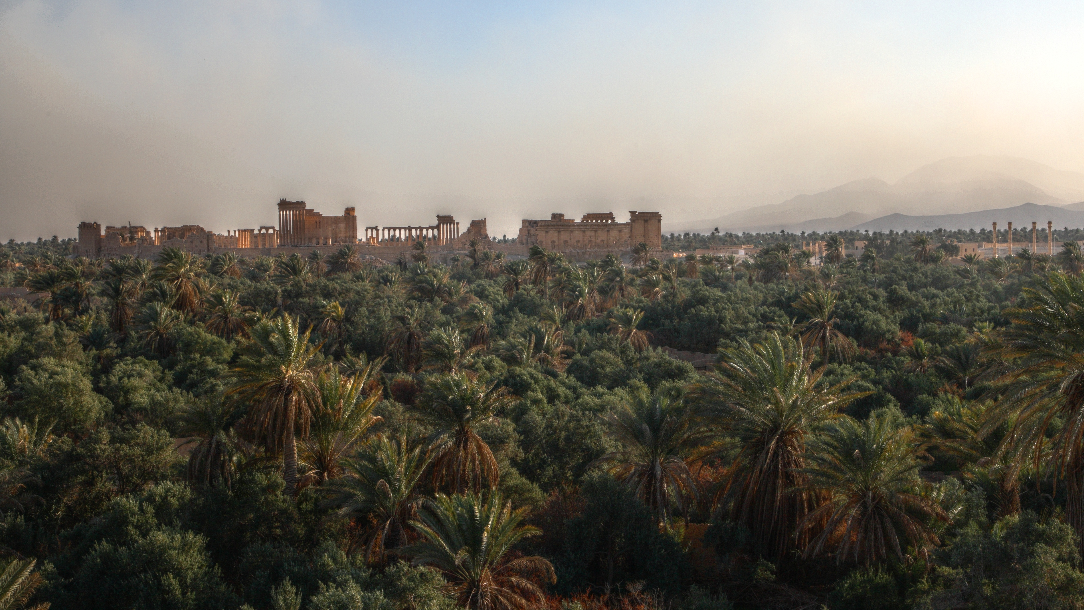 1 shot HDR tonemapped using Mantuik